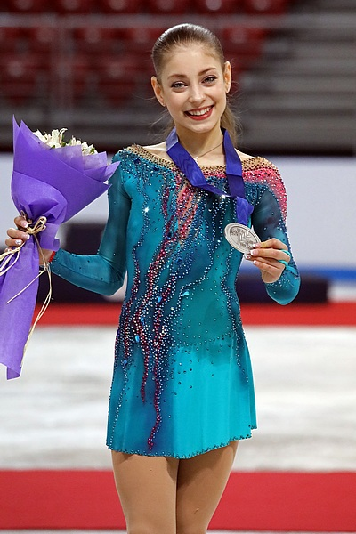 Photos – Junior World Championships 2018 – Ladies (Medalists)